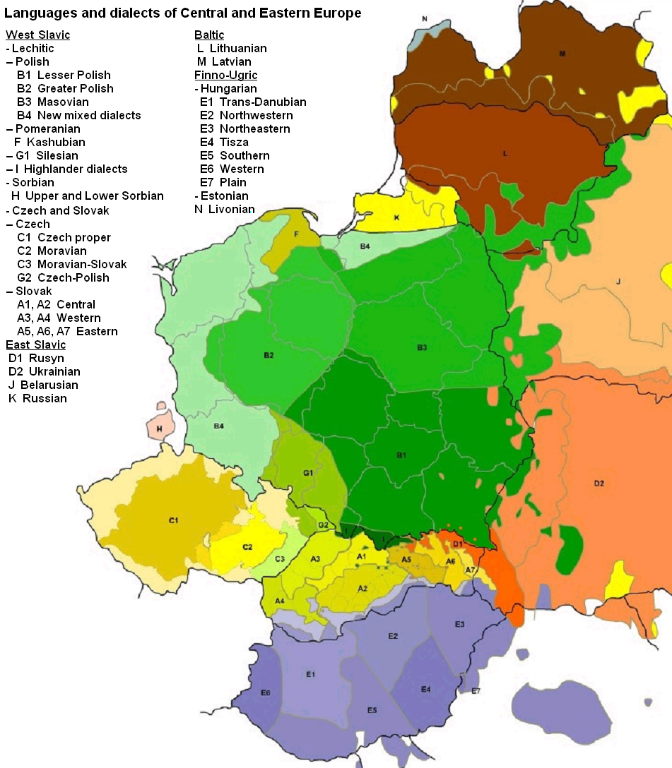 Map of languages and dialects of Central and Eastern Europe.